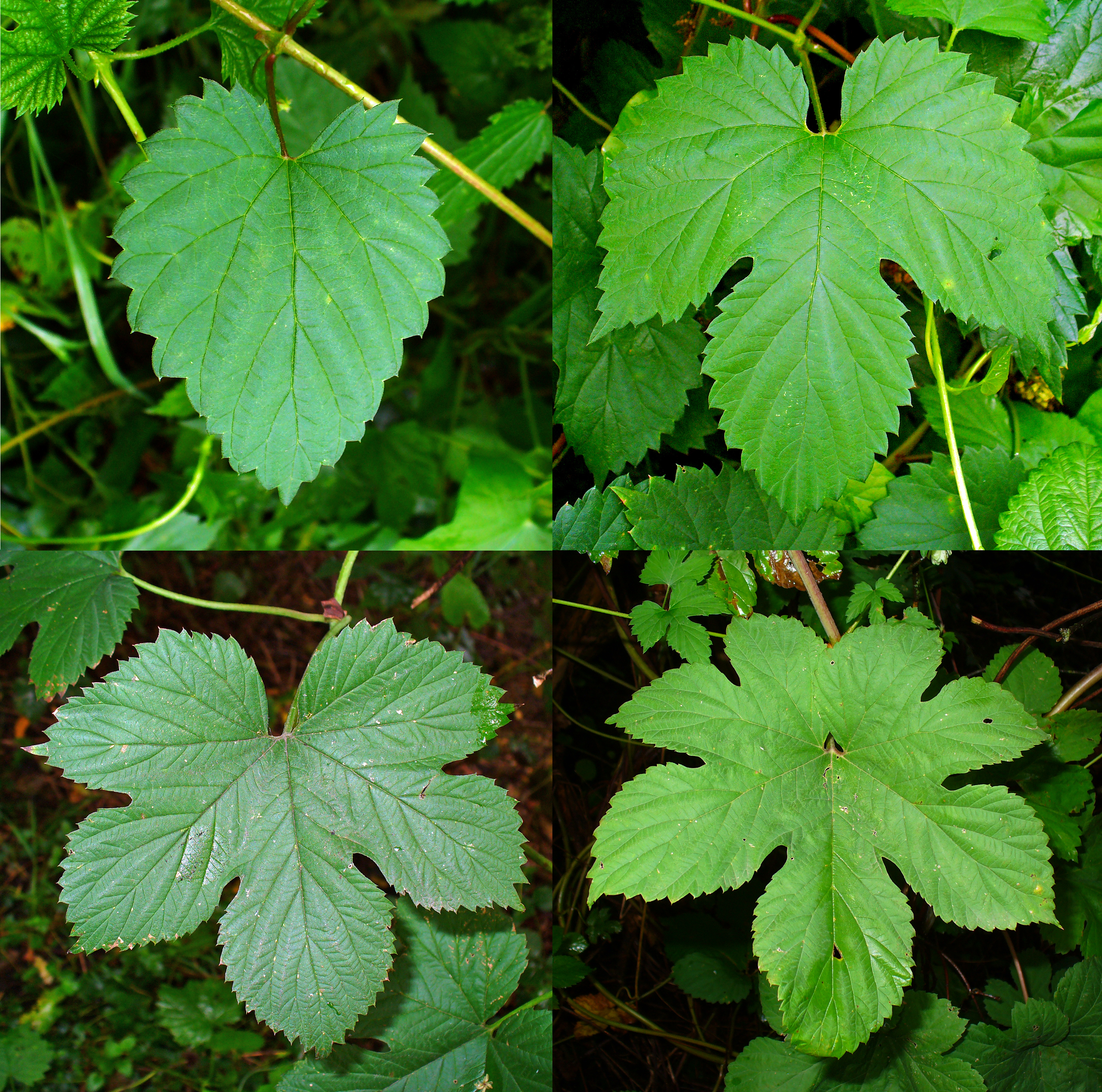 Common Hop, leaf forms; Karlsruhe, Germany.